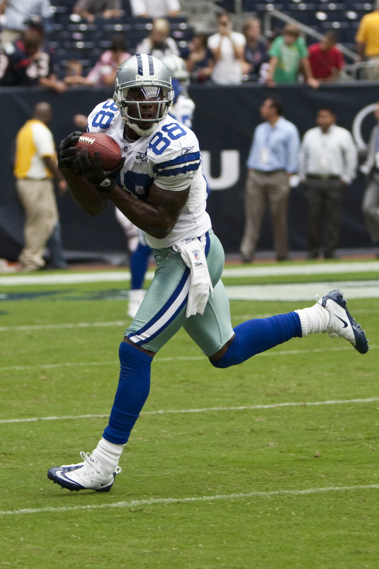 Dallas Cowboys vs. Houston Texans. Reliant Stadium. Houston, Tx. Sept. 26 2010.